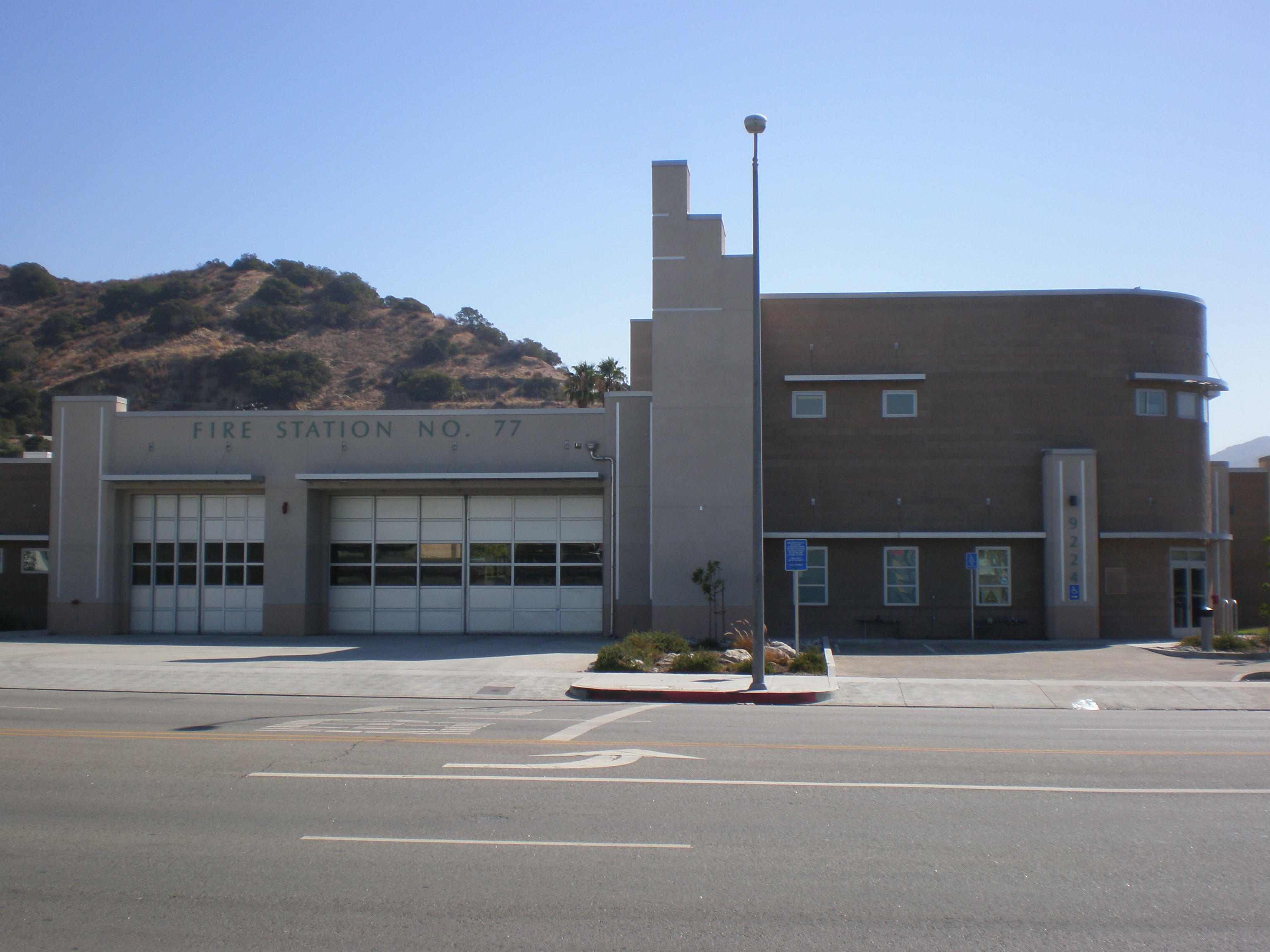 LAFD Fire Station # 77 — in Sun Valley of the northeastern San Fernando Valley, Los Angeles, California.